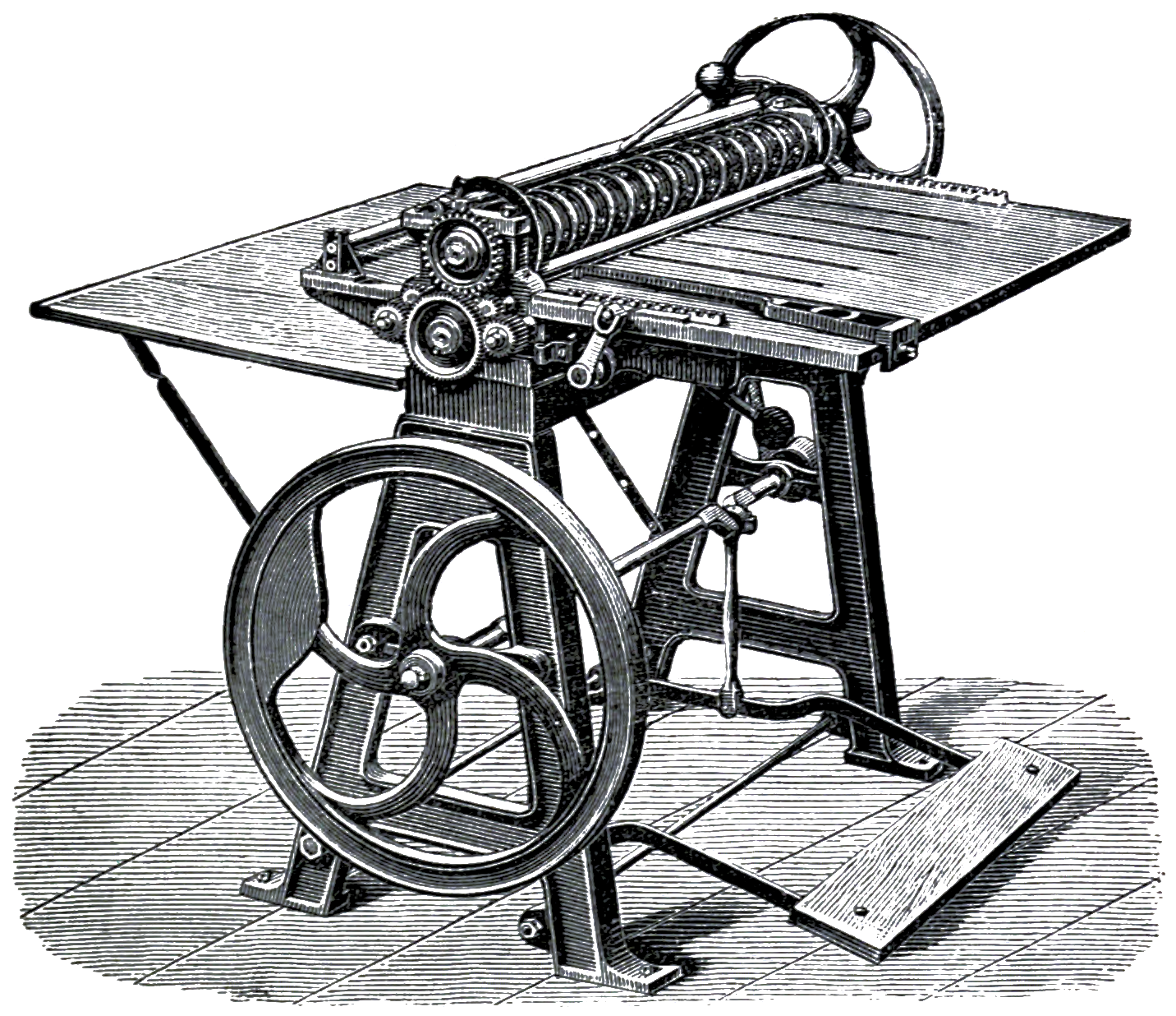 Illustration of a rotary card cutting and scoring machine from an 1889 advert for "Oscar Friedheim Ltd." (est. 1884) of 7 Water Lane, Ludgate Circus, London as printed in "The Art of Bookbinding" by Joseph William Zaehnsdorf. Designed and manufactured by "Louis Peltner" of Berlin, the machine was imported into the United Kingdom by Oscar Friedheim Ltd. and sold under its own name. Among other things, it was capable of producing up to 100,000 visiting and business cards a day and could be operated by steam or treadle.